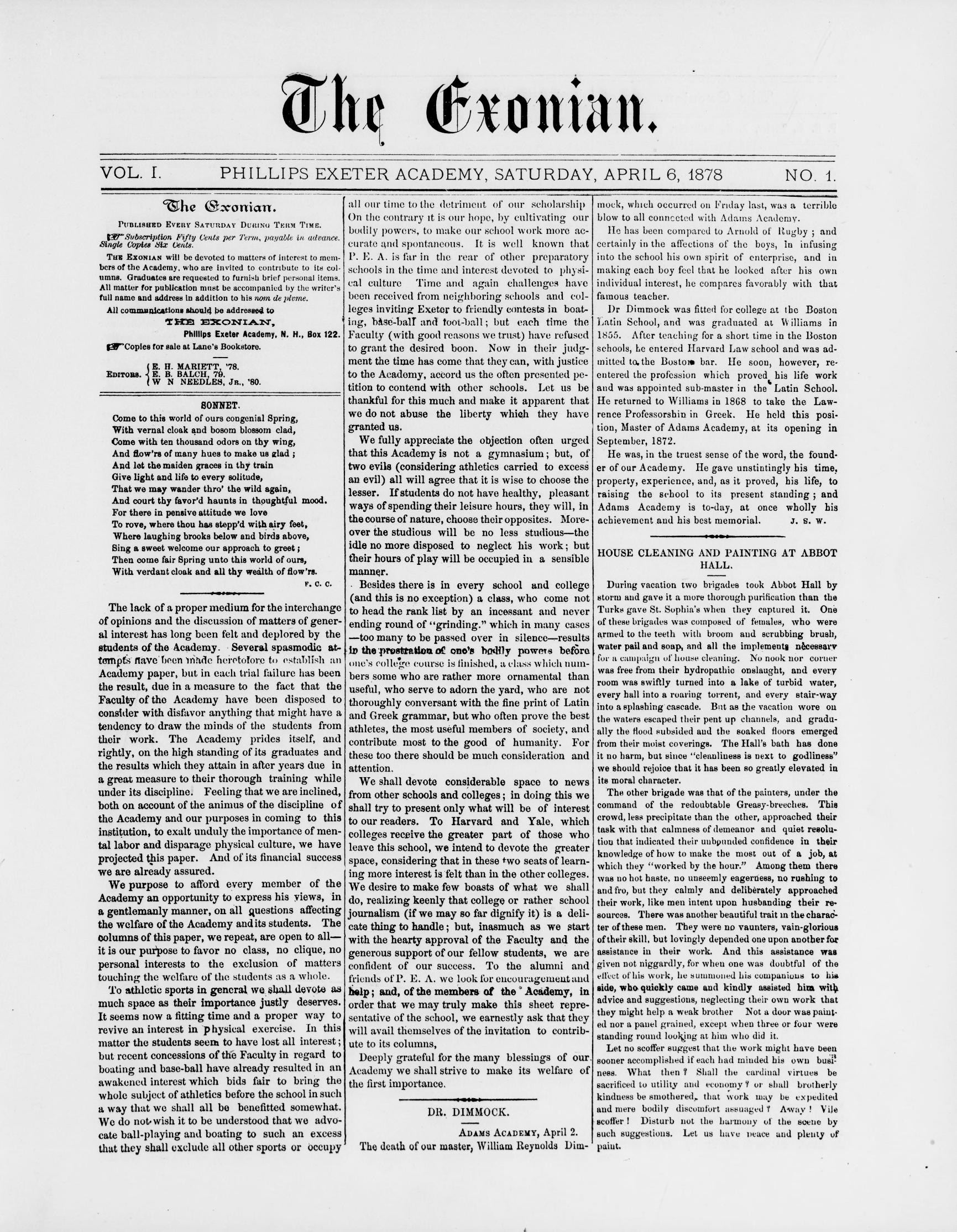 An image of the first page of the first issue of the Exonian, published on April 6th, 1878.